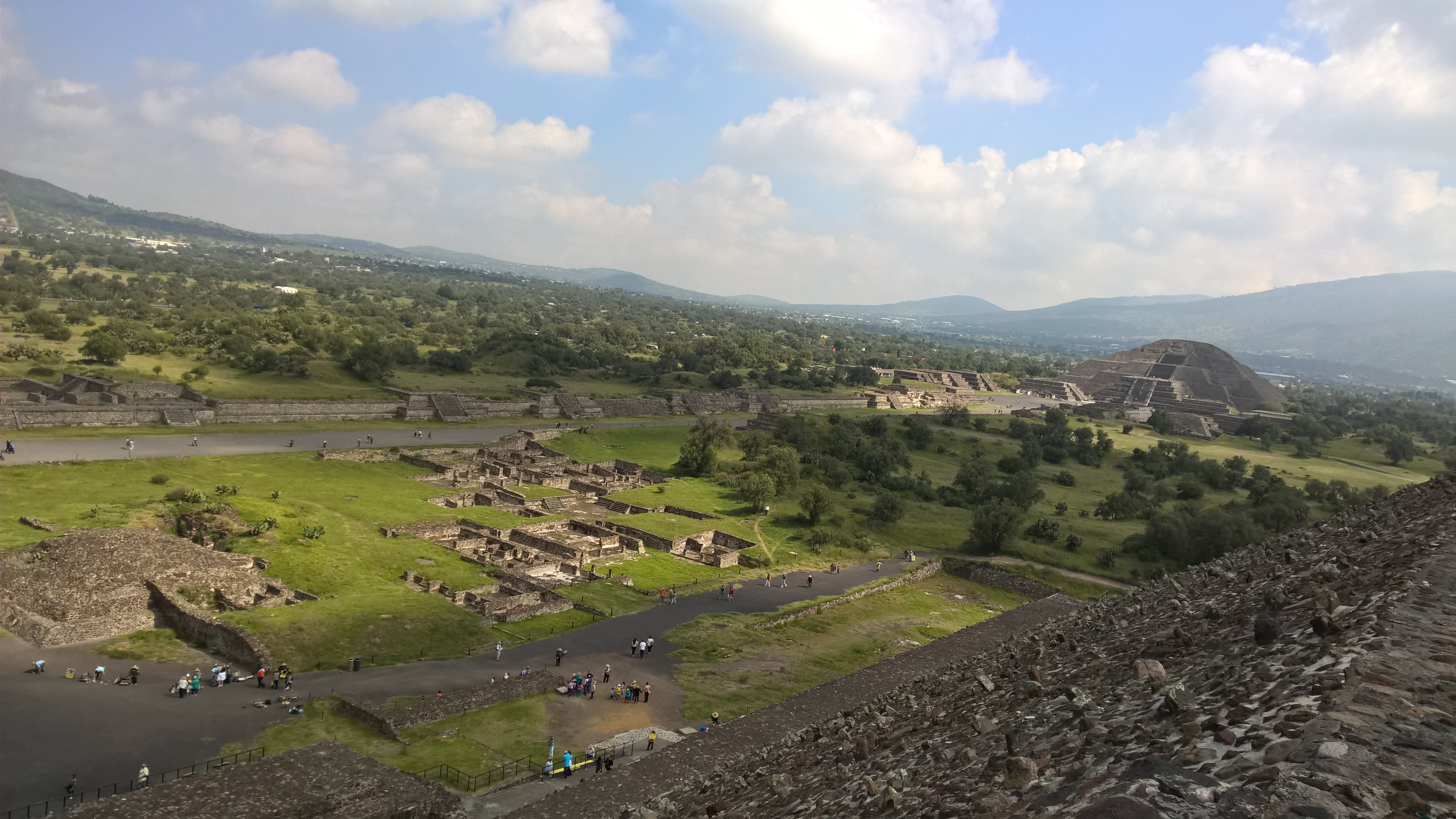 View from Pyramid of the Sun